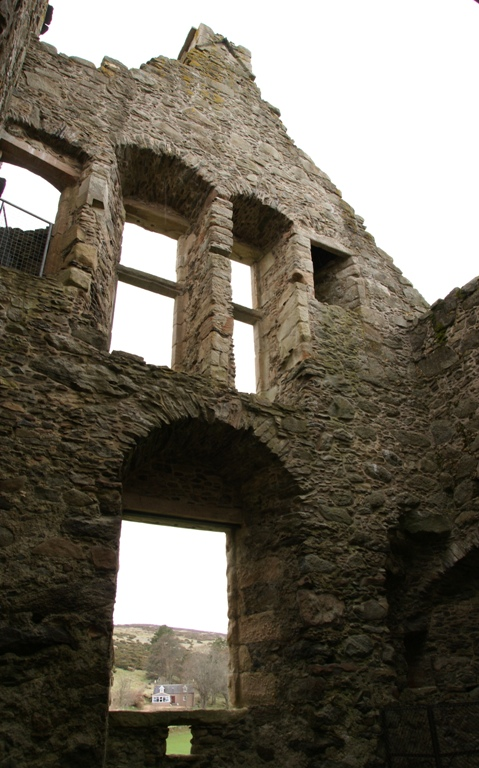 Glenbuchat Castle, Aberdeenshire, Scotland - interior with window from 1701